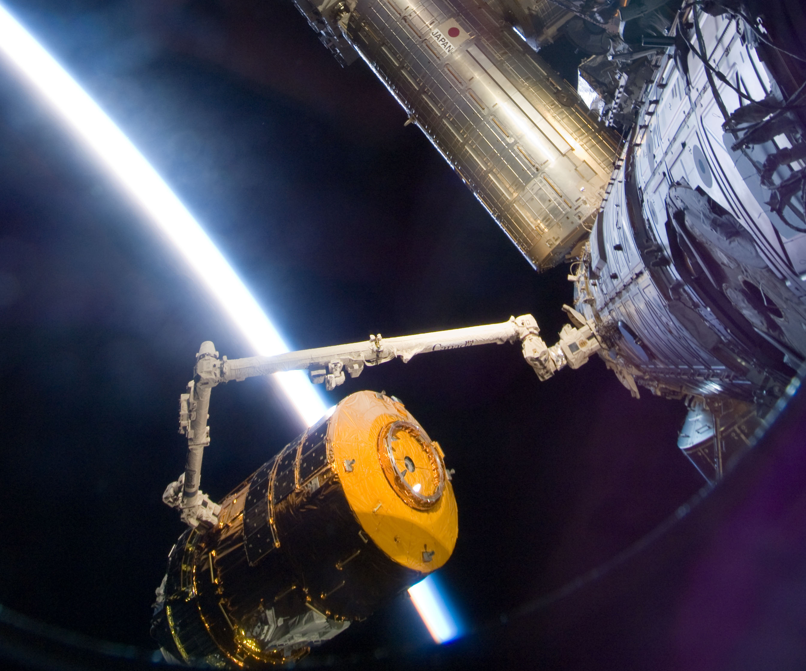 Backdropped by the thin line of Earth's atmosphere and the blackness of space, the International Space Station's Canadarm2 unberths the unpiloted Japanese H-II Transfer Vehicle (HTV) in preparation for its release from the station. European Space Agency astronaut Frank De Winne, Expedition 21 commander; NASA astronaut Nicole Stott and Canadian Space Agency astronaut Robert Thirsk, both flight engineers, used the station's robotic arm to grab the HTV cargo craft, filled with trash and unneeded items, and unberth it from the Harmony node's nadir port. The HTV was successfully unberthed at 10:18 a.m. (CDT) on Oct. 30, 2009, and released from the station's Canadarm2 at 12:32 p.m.